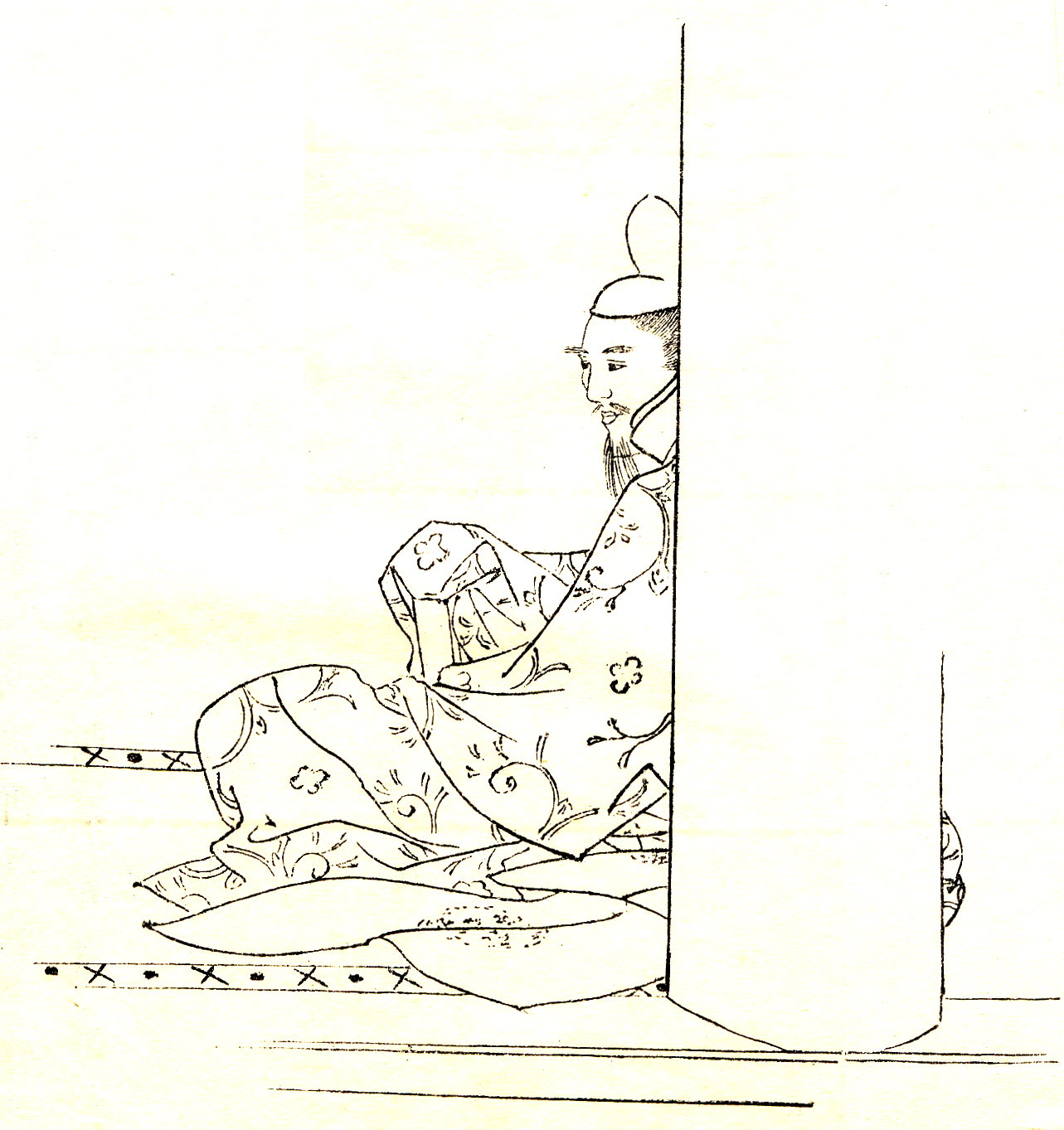 Fujiwara no Mototsune(藤原基経)was a Japanese court noble in the Heian period.This picture was drawn by Kikuchi Yosai（菊池容斎） who was a painter in Japan.